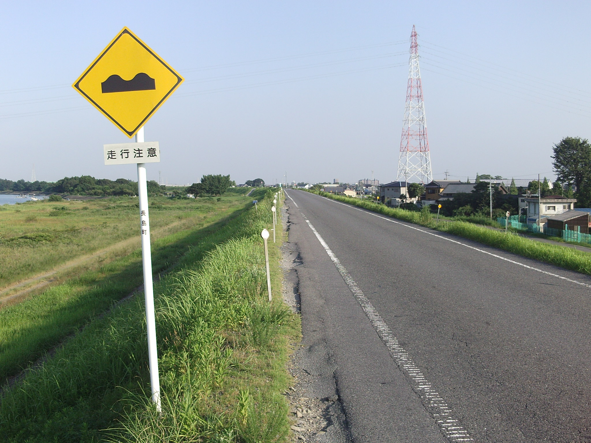 The Mie Prefectural Road Route 168 in Nagashimacho, Kuwana City. Sign reads: Drive with care